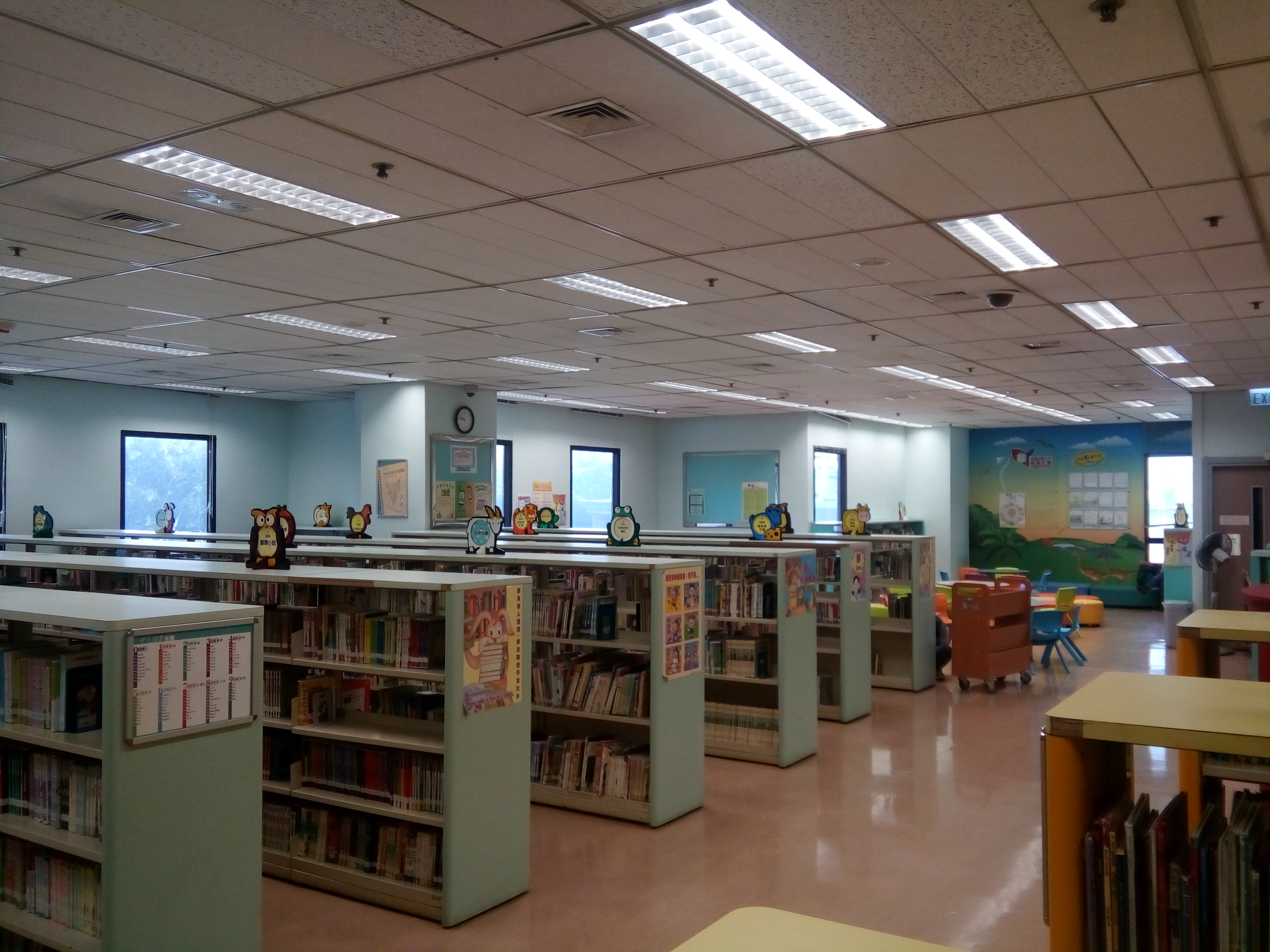 荃灣公共圖書館, 新界荃灣西樓角路38號, 荃灣政府合署3-5樓